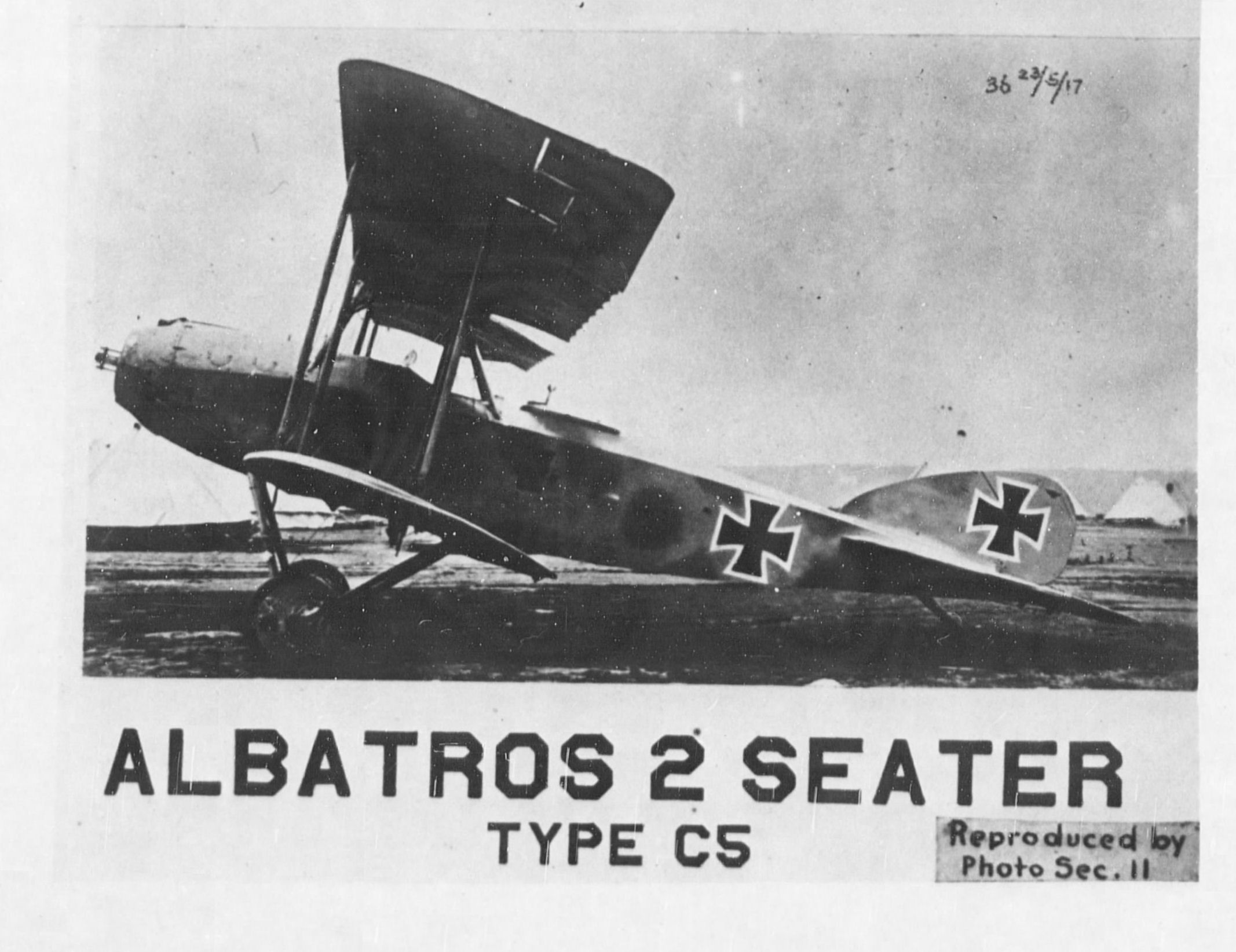 Captured Third Army German Albatros C.V , taken at Coblenz Aerodrome, Germany